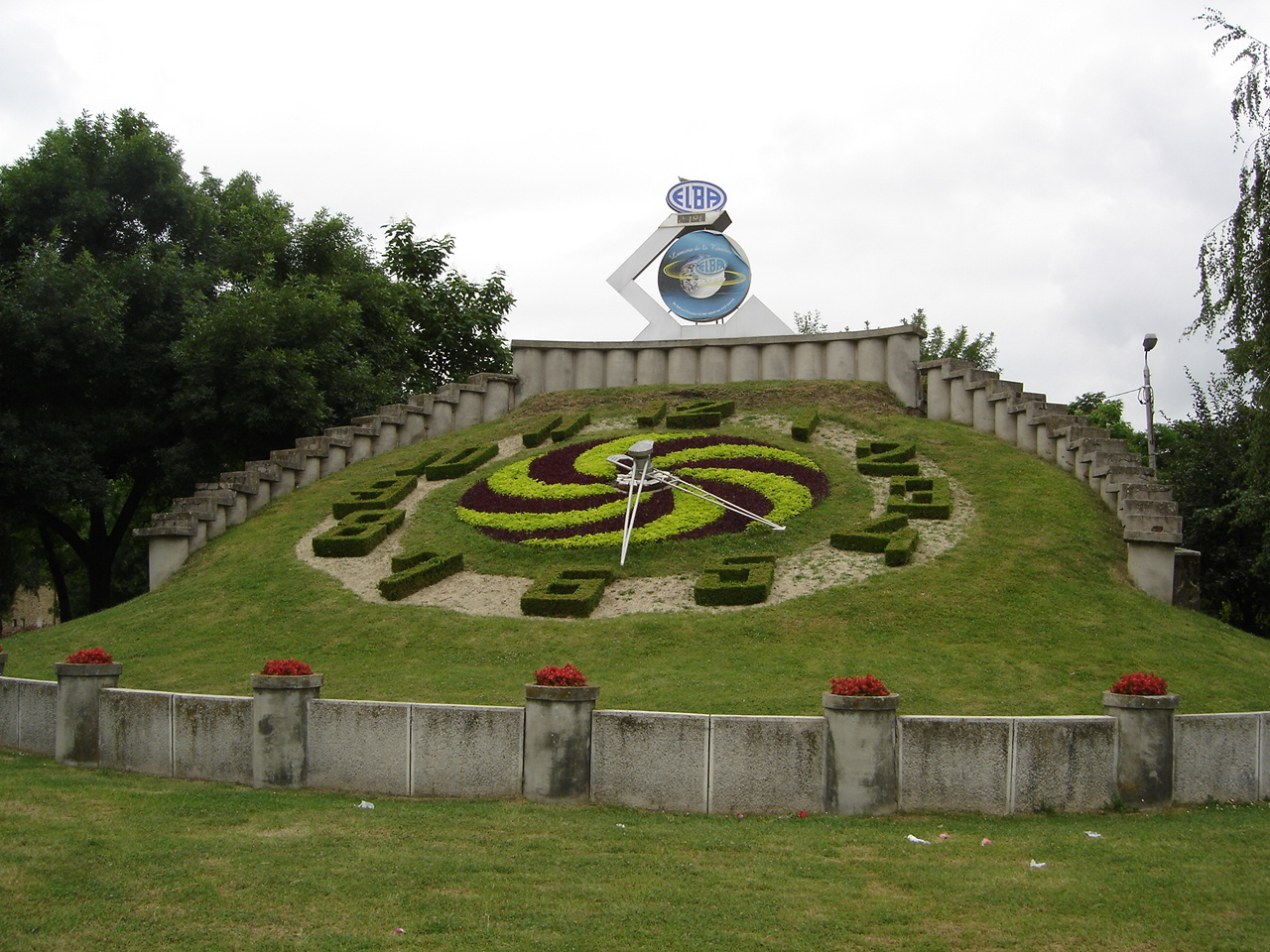 Flower clock next to Hotel Continental in Timişoara